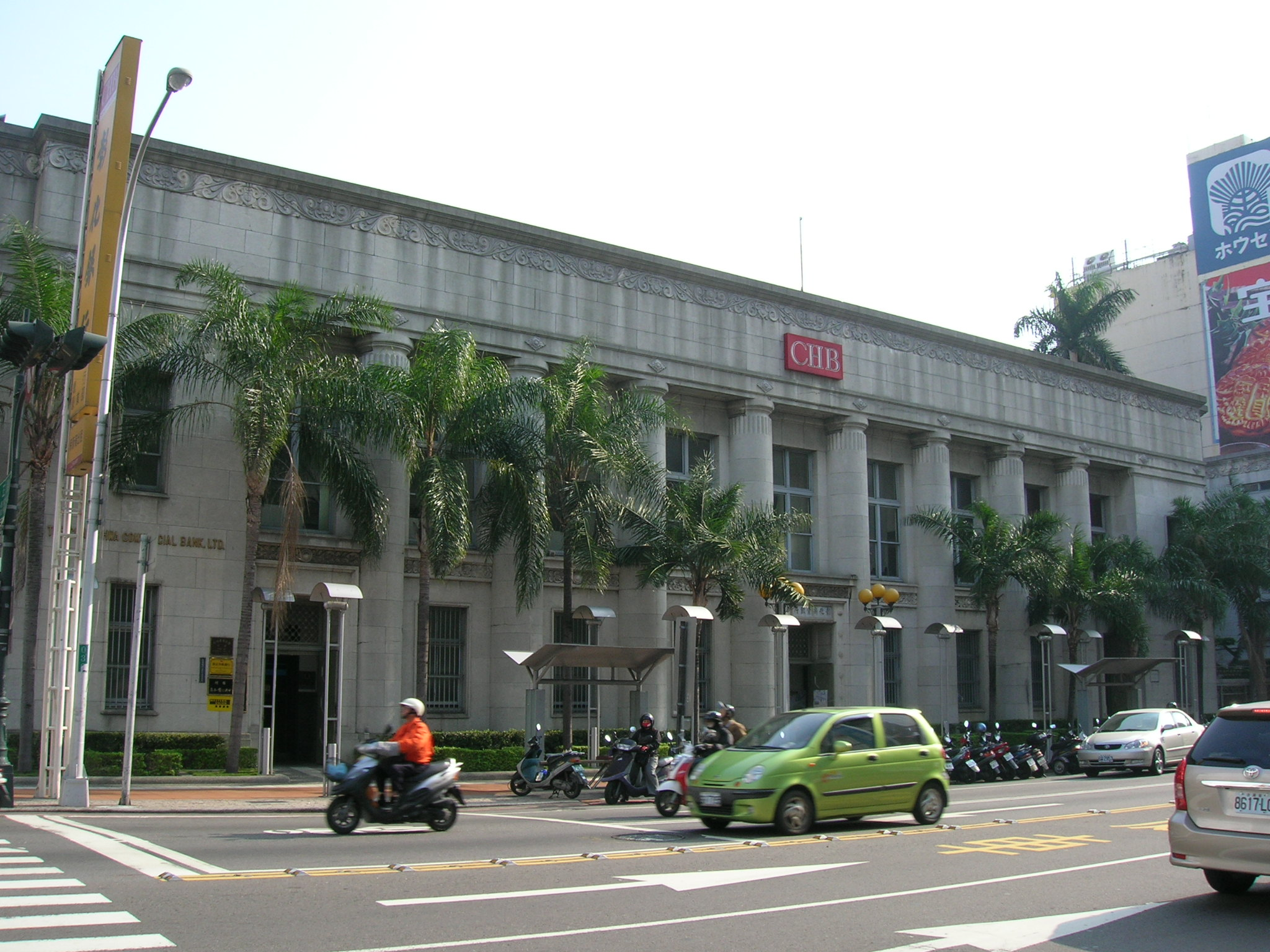 Headquarters of Chang Hwa Bank, Taichung City, Taiwan.